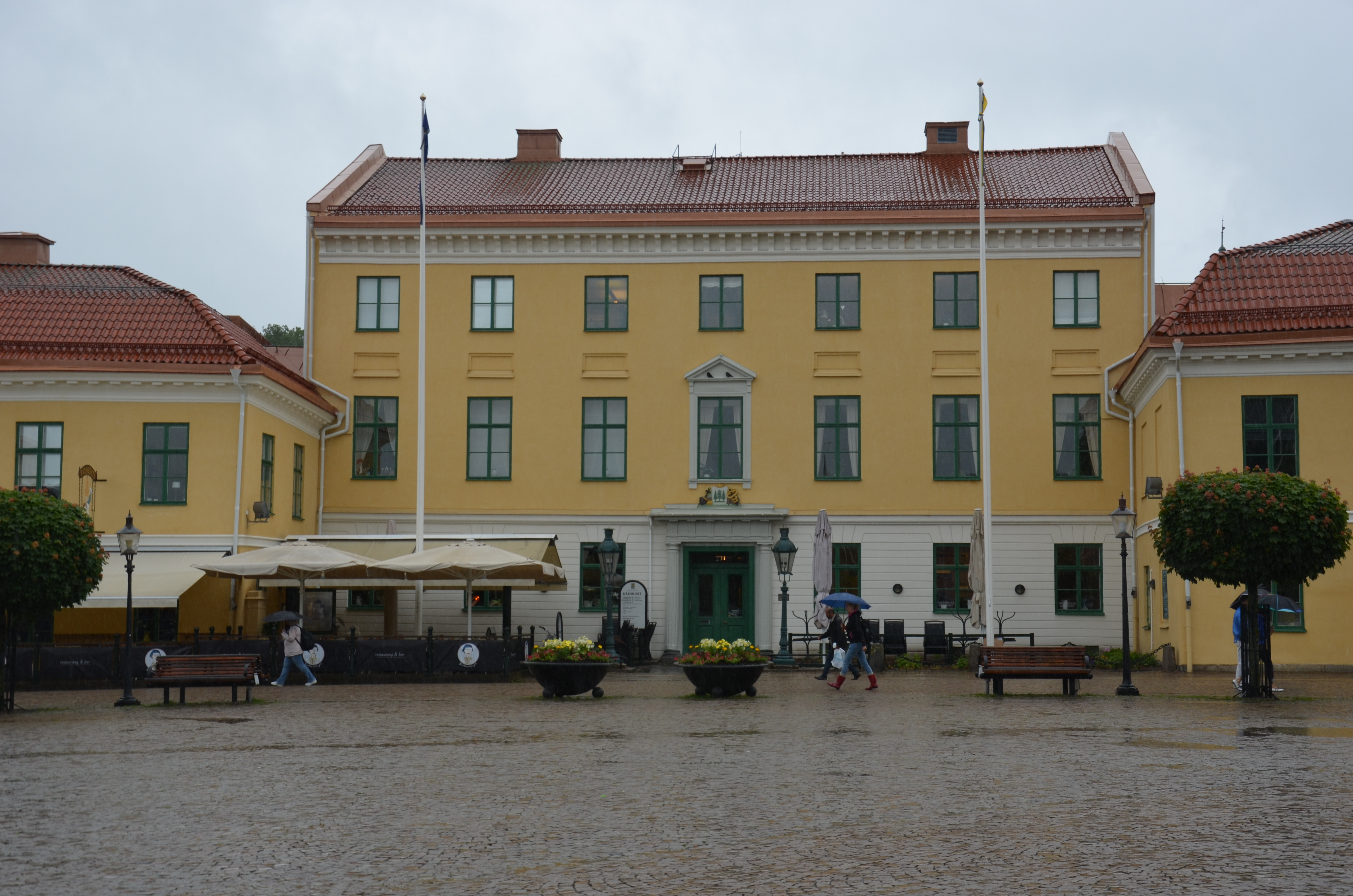 Rådhuset i Uddevalla, uppfört 1818-18